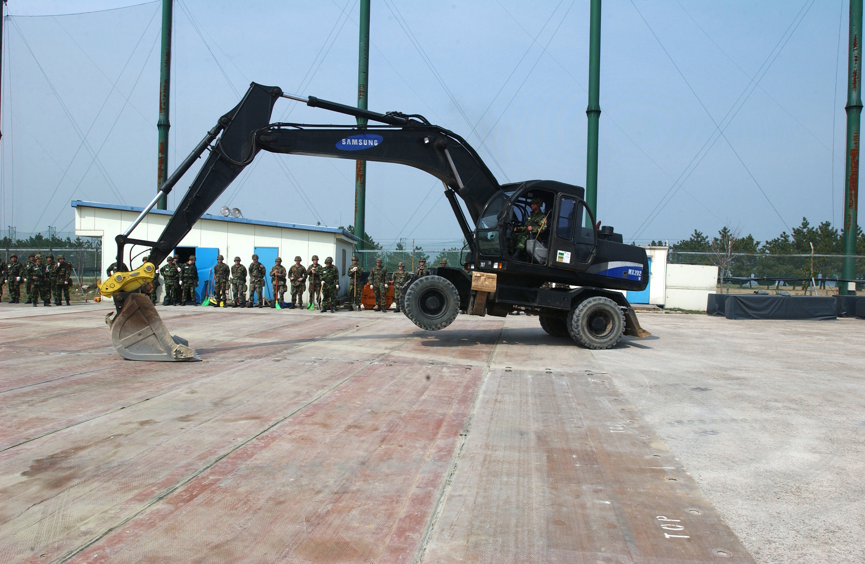 Samsung MX 202 wheeled excavator is shown during the exercise Foal Eagle 2007.